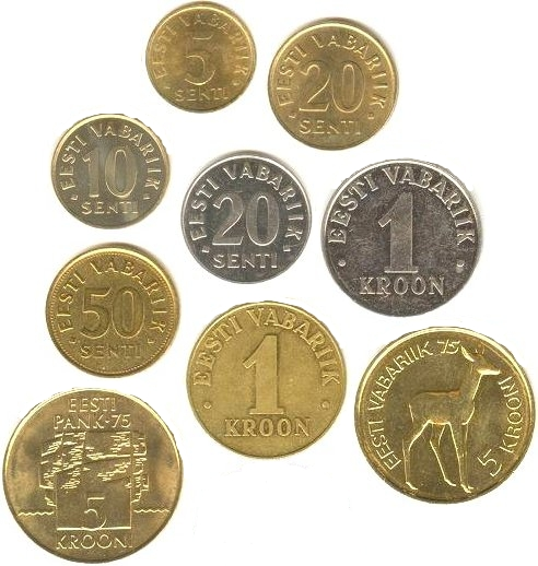 Overview of Estonian coins.